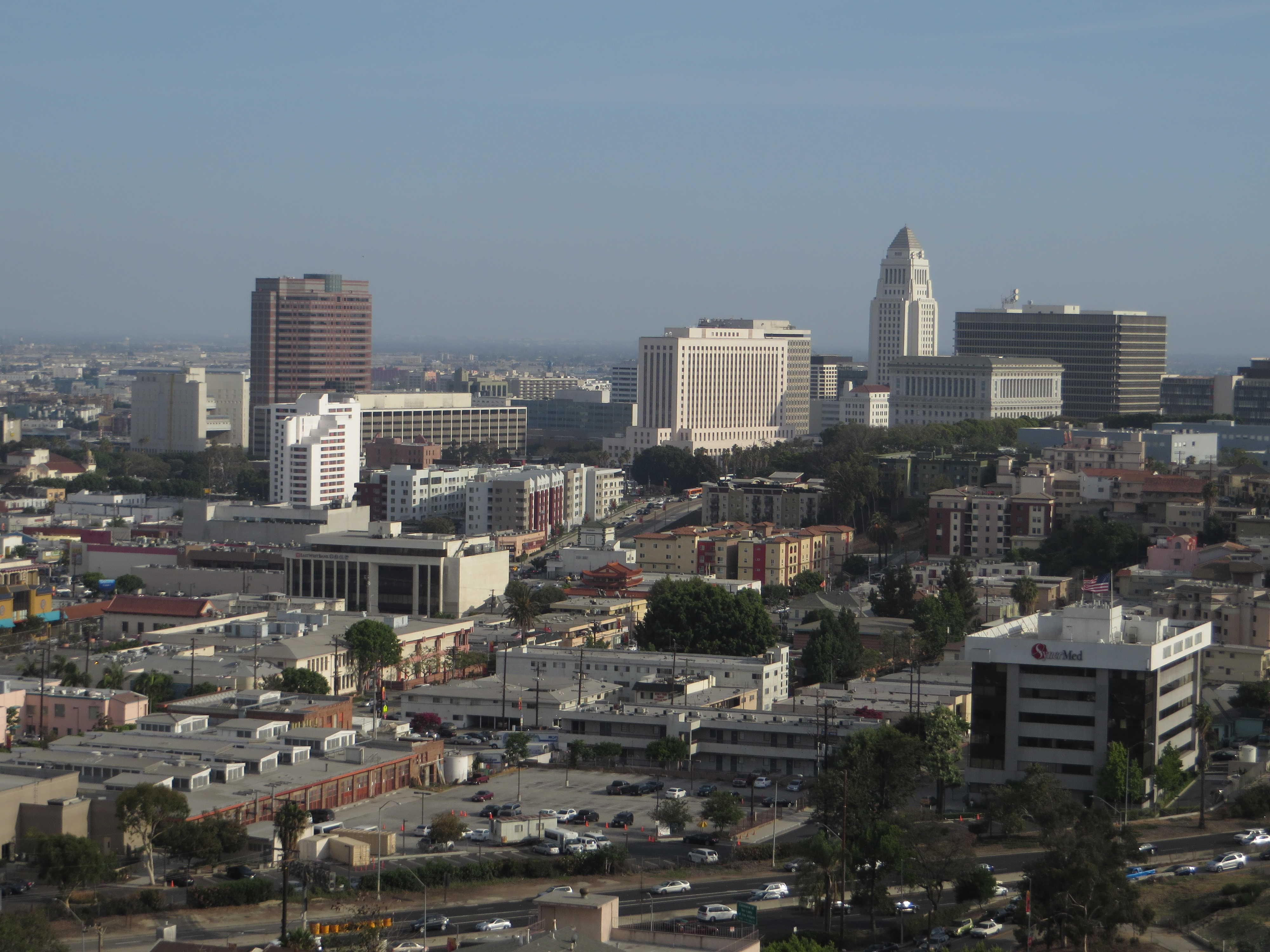 View of Los Angeles Civic Center from Dodger Stadium, Los Angeles, California